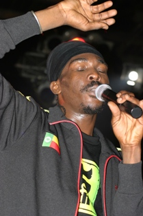 Reggae artist Anthony B performing at Studio 7 show, Seattle 12th November 2005